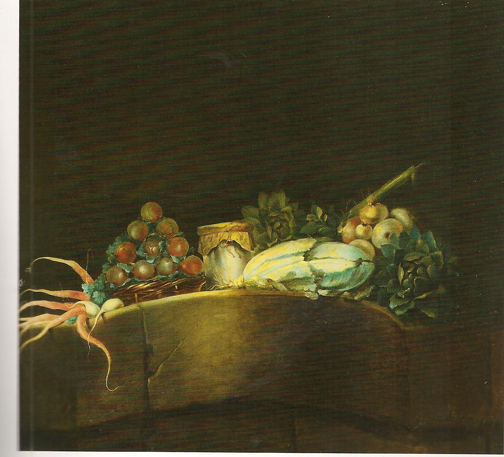 Nature morte aux legumes.Nature morte de l'ecole Française toile d'Antoine Babron signée en bas à droite 1770